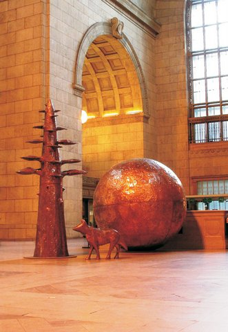 A Landscape is pictured in a solo exhibit at Union Station, Toronto, Ontario, in 2008. It is comprised of 3 pieces, built in 2003-2004. Wood frame sheathed in copper and copper rivets. Moon: 8 ' in diameter. Tree: 12' High x 4 ' diameter. Life-sized coyote: 51" x 33".